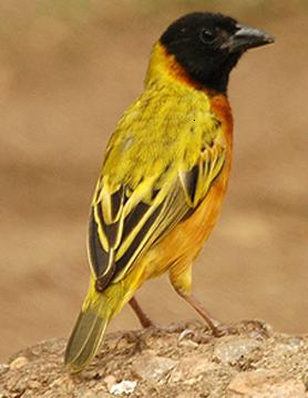 Uganda Yellow-backed Weaver Ploceus melanocephalus Mbweya QE NP Dec 2005